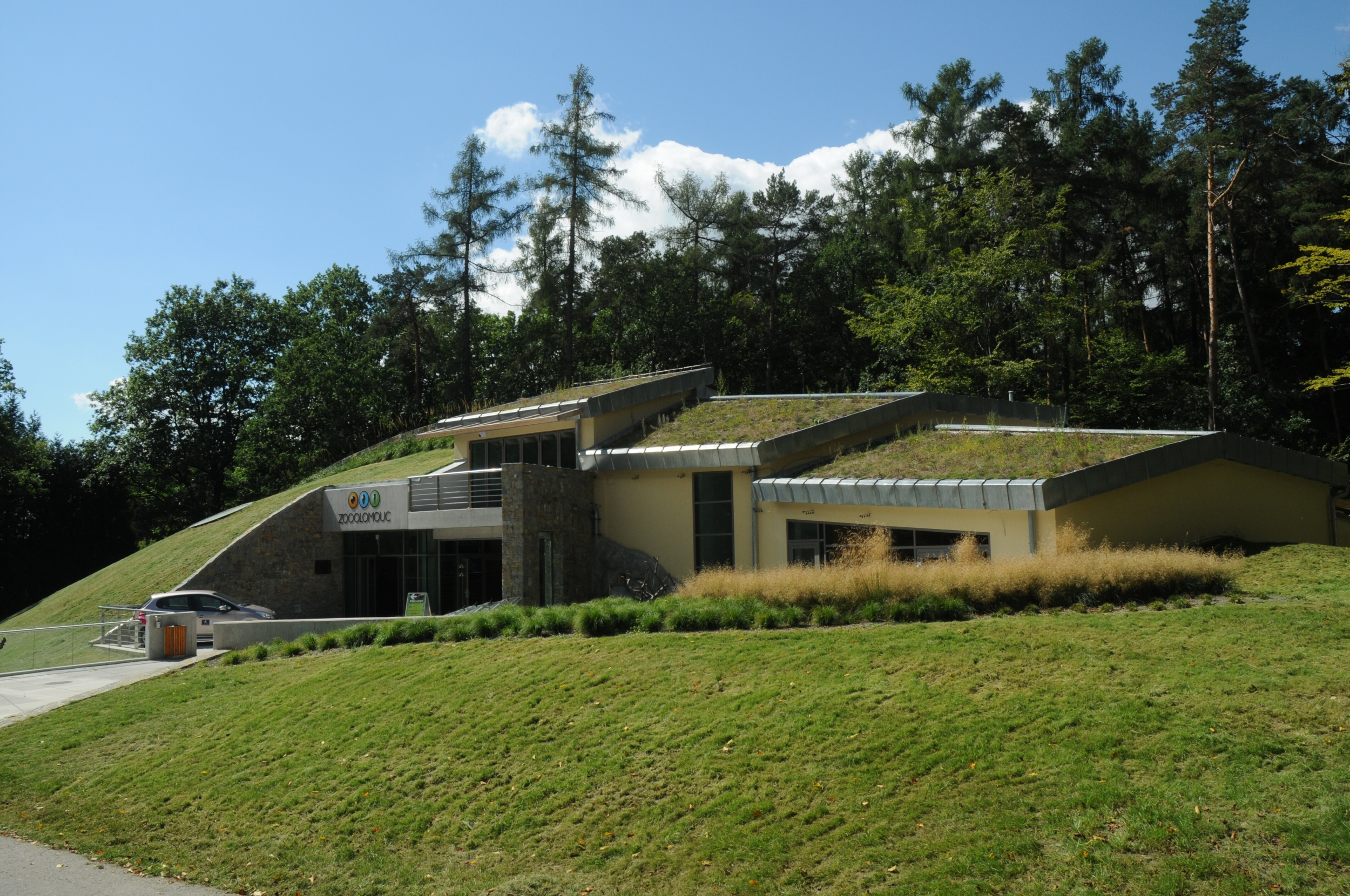 The new entrance to the zoo